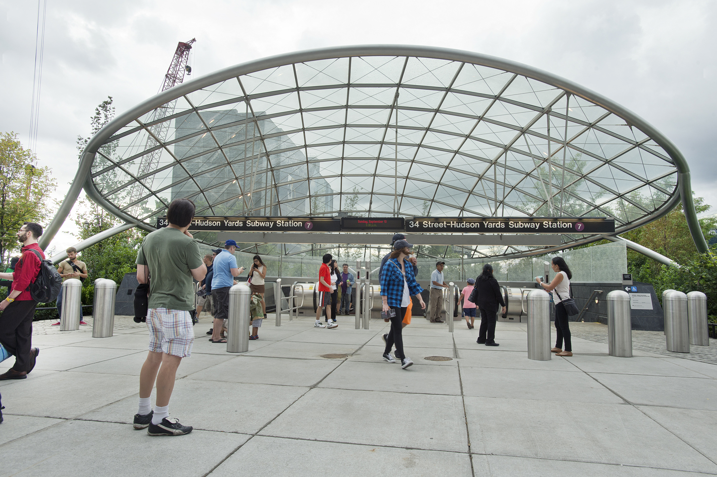 MTA Chairman and CEO Thomas Prendergast joins elected officials to dedicate the new 34 St-Hudson Yards station on Sun., September 13, 2015, which extends the 7 line to the West Side. Photo: Metropolitan Transportation Authority / Patrick Cashin